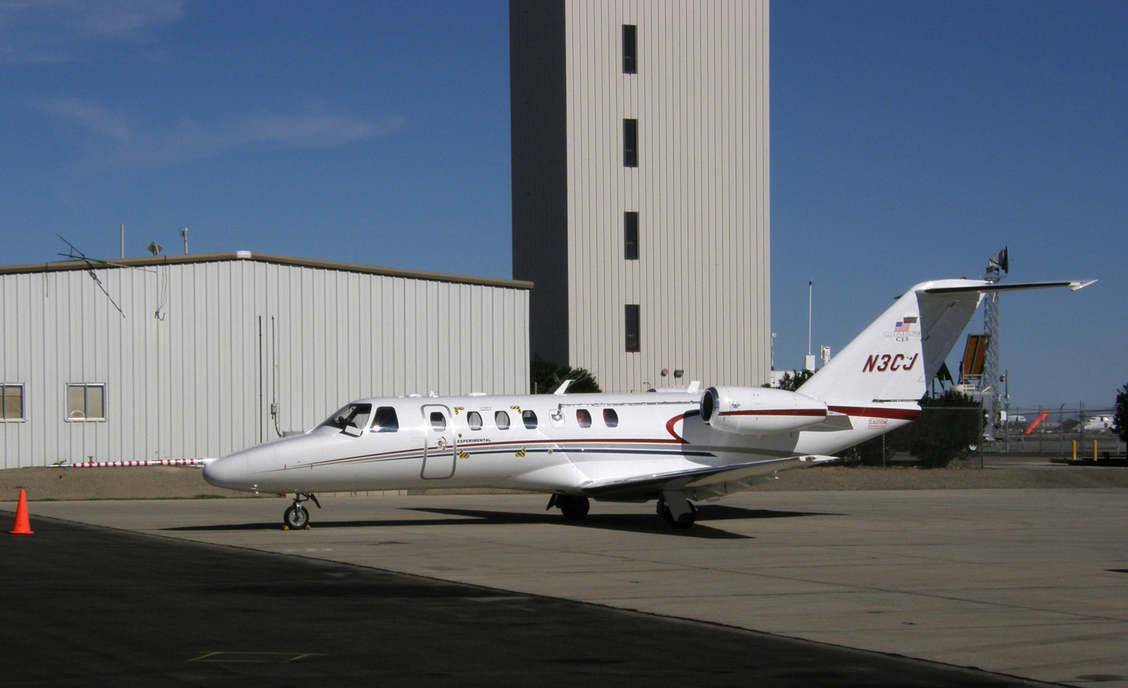 Cessna Citation CJ3 flight test aircraft at the National Test Pilot School, Mojave.